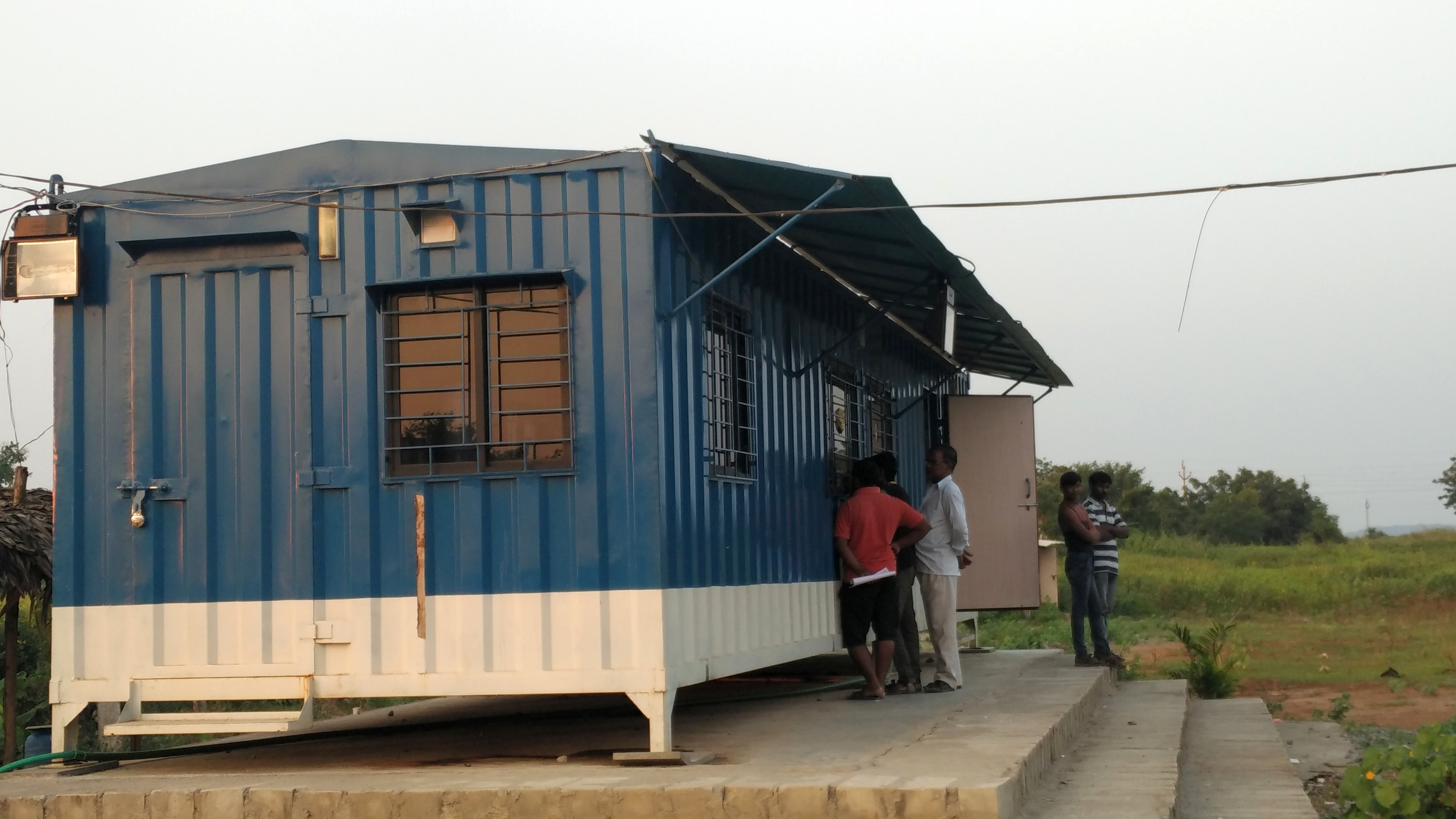 Border Check Post on the border between the States of Andhra Pradesh and Telangana (BCP_incoming) at Garikapadu Village of Krishna District. This Border Check Post was established at Garikapadu village bordering the A.P state by the A.P Commercial Taxes Department for effective vigilance upon transport of goods between the two states.